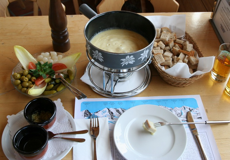 A full cheese fondue set in Switzerland. Apart from pieces of bread to dip into the melted cheese, it comes with side servings of kirsch, raw garlic, pickled gherkins and onions, and olives.